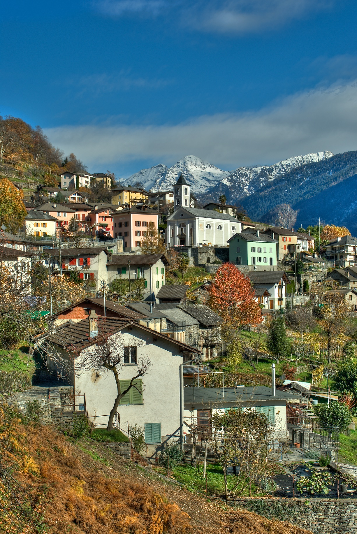 View of the little town of Verdabbio